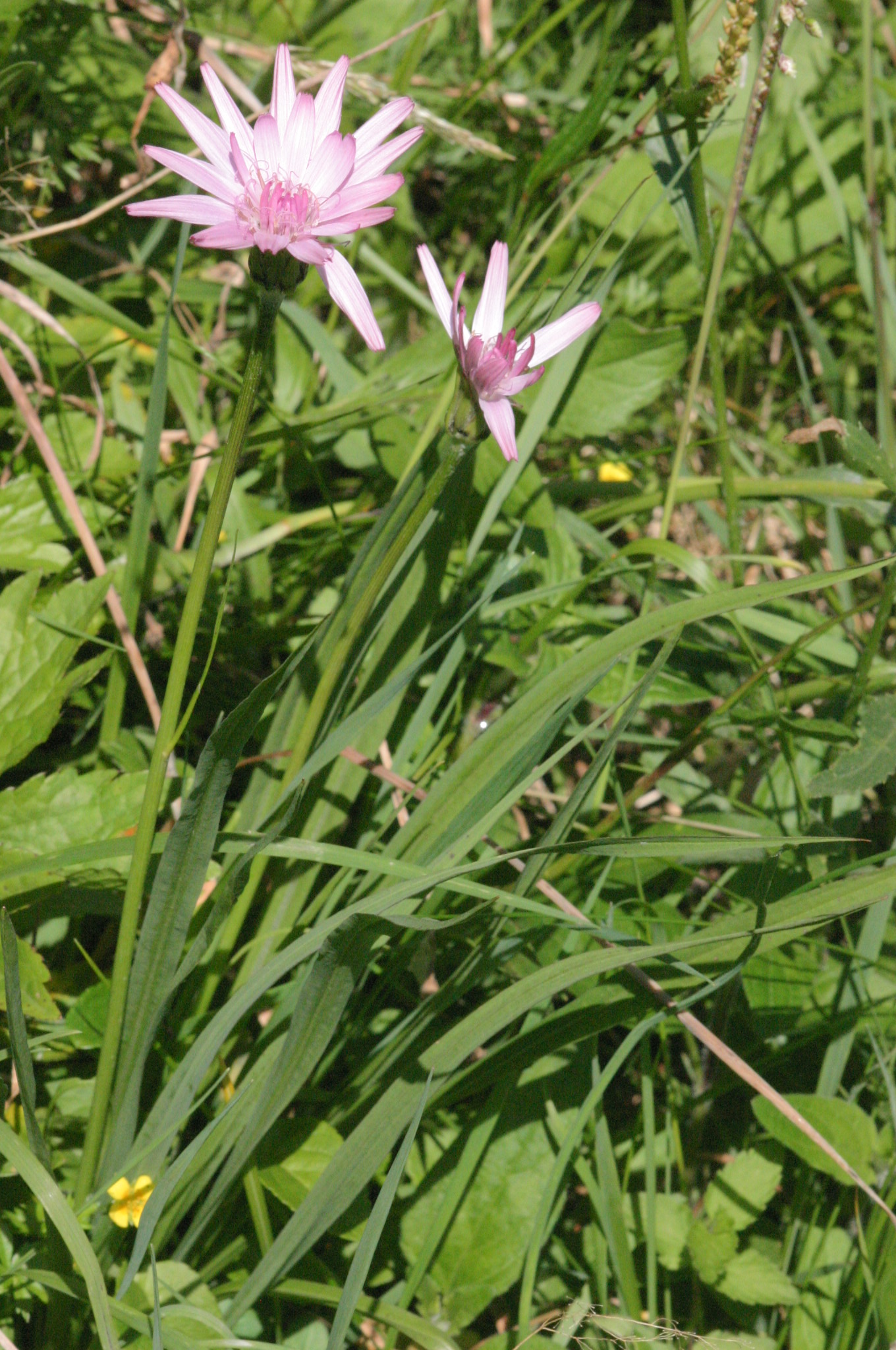 Podospermum purpureum